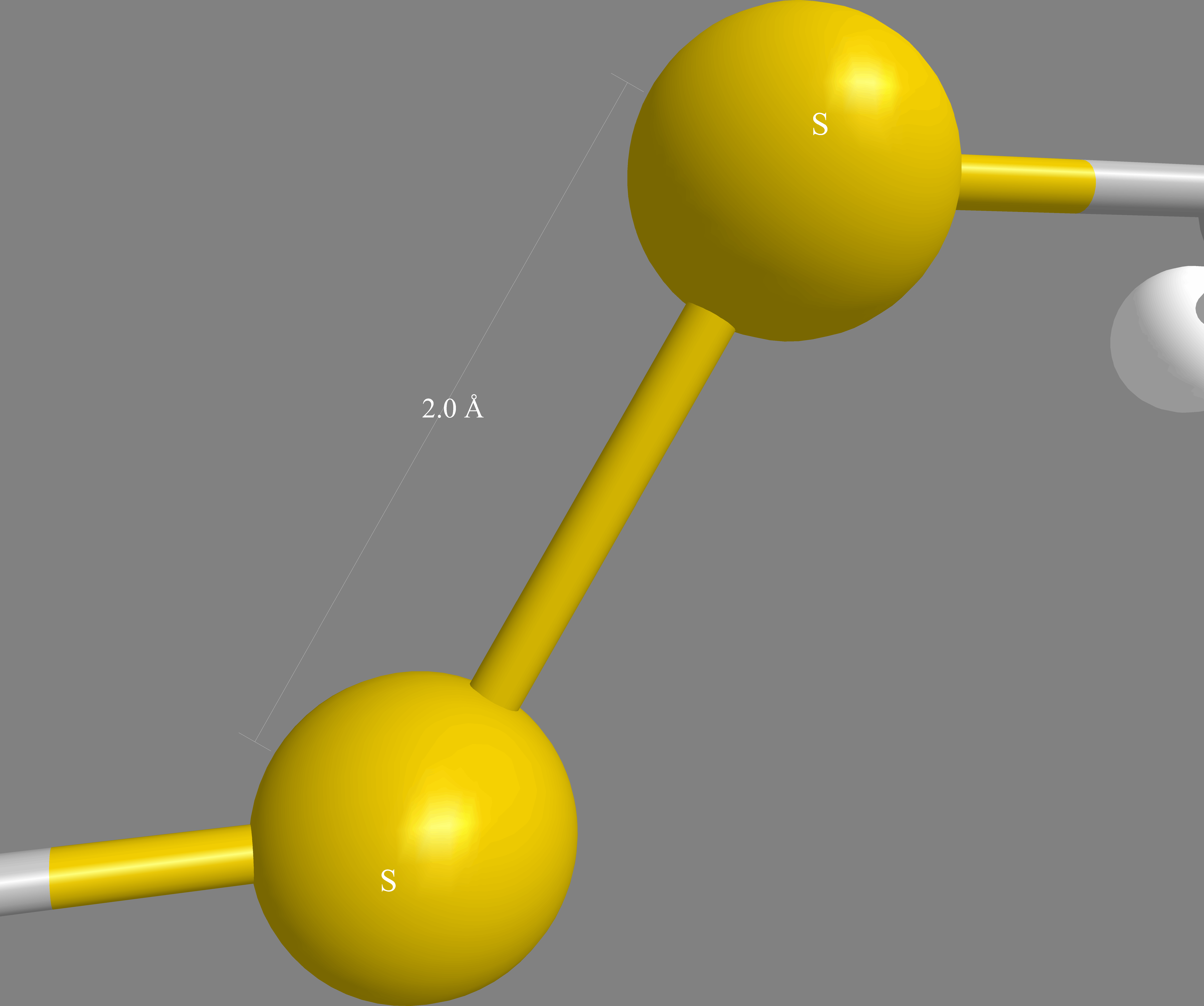 Disulfide bond common in protein structures.